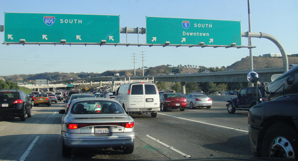 Interstate 805/5 Split durning the evening rush hour.